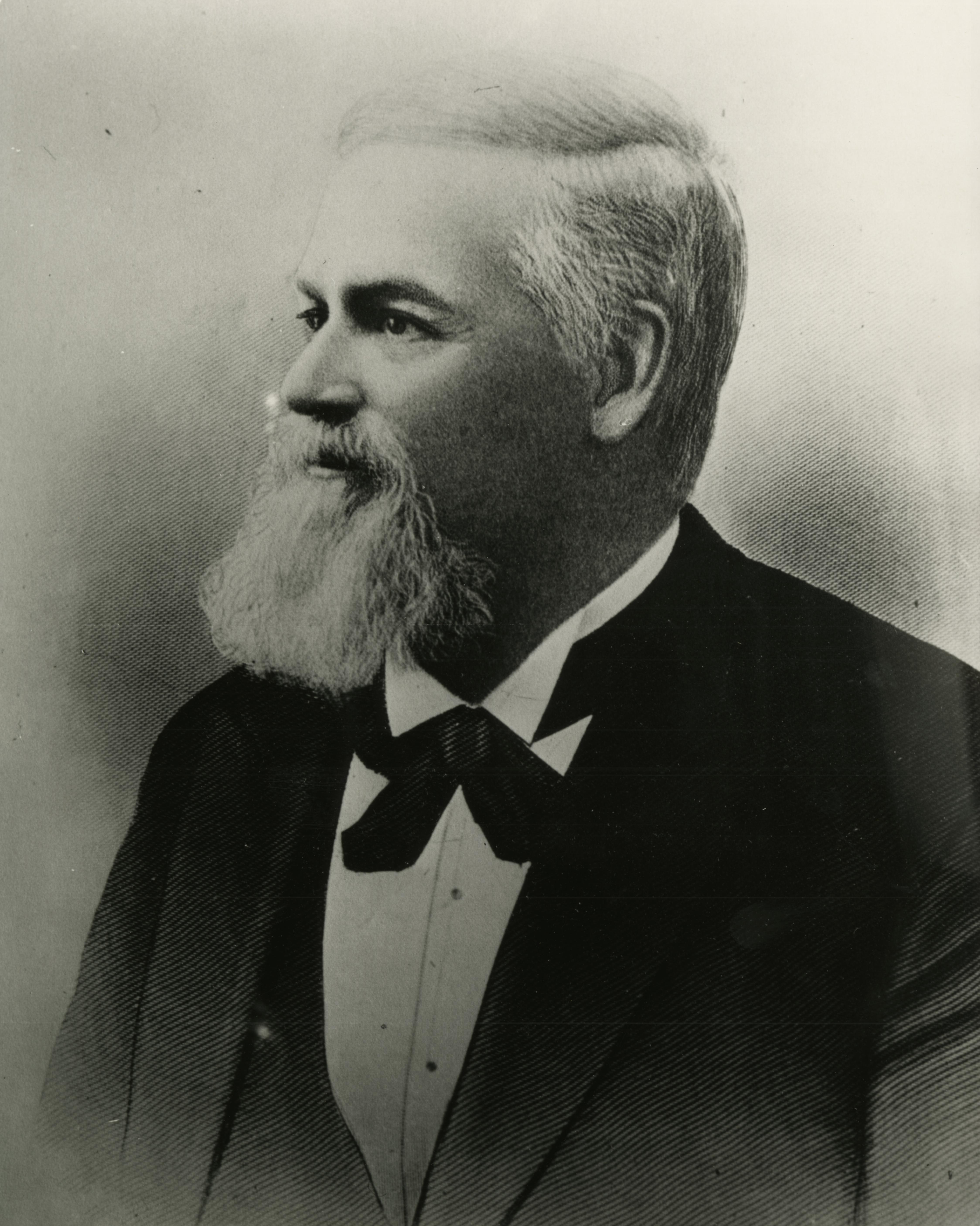 Photo of George E. Cole, Governor of the territory of Washington from 1866–1867.